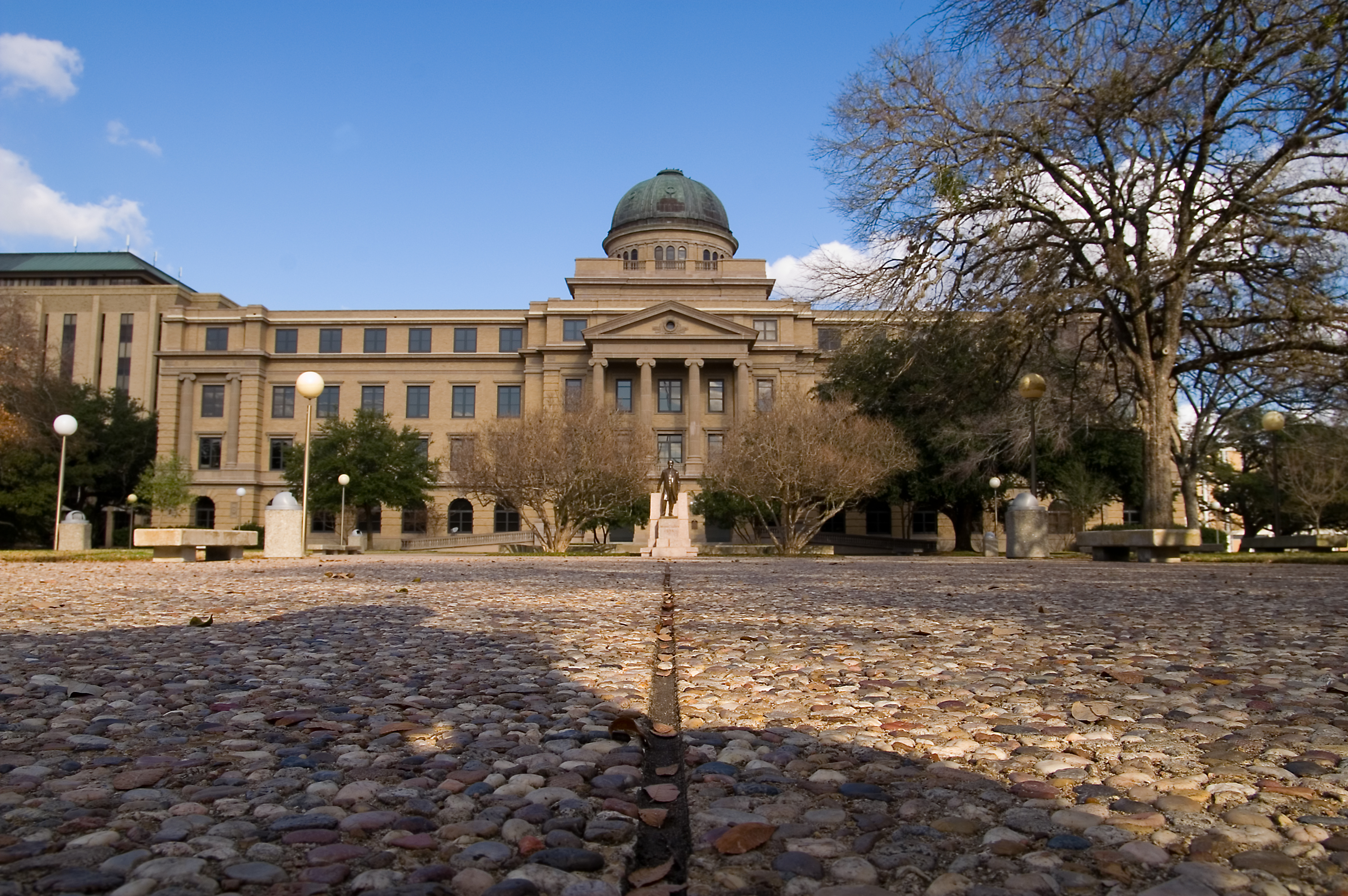 The Academic Building at Texas A&M UniversityAcademic Building Color